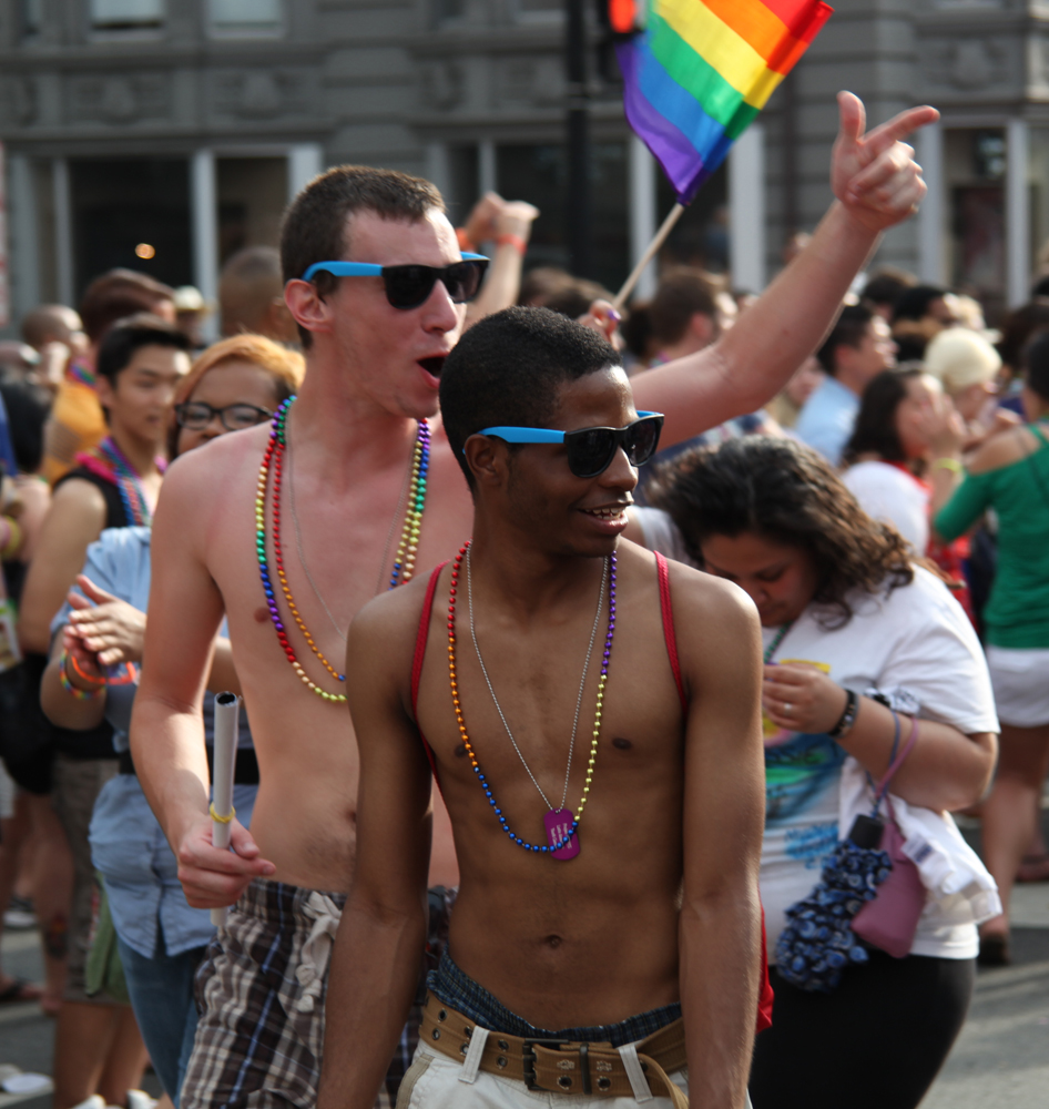 My future husband... in case the other black guy doesn't work out. Taken during the pride parade during 2011 Capital Pride. Capital Pride is Washington, D.C.'s lesbian, gay, bisexual, transgender, transsexual, and questioning annual parade and festival. The festival lasts 10 days. The parade is the last Saturday, and the street festival is the last Sunday of the event. In 2011, the parade was on June 11 from 6 to 8 PM.